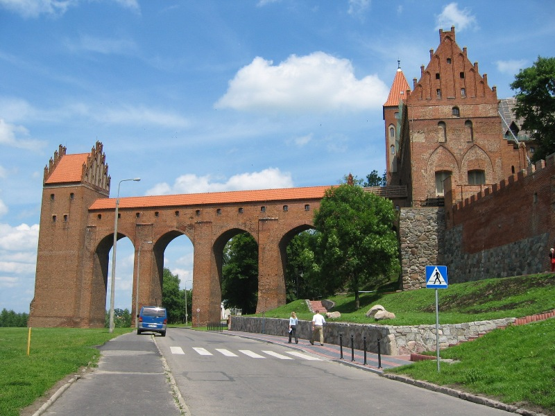 Dansker - latrine tower of Gothic castle of Pomesanian bishops from 14th century in Kwidzyn, Poland. Photo taken 23rd of June 2004.